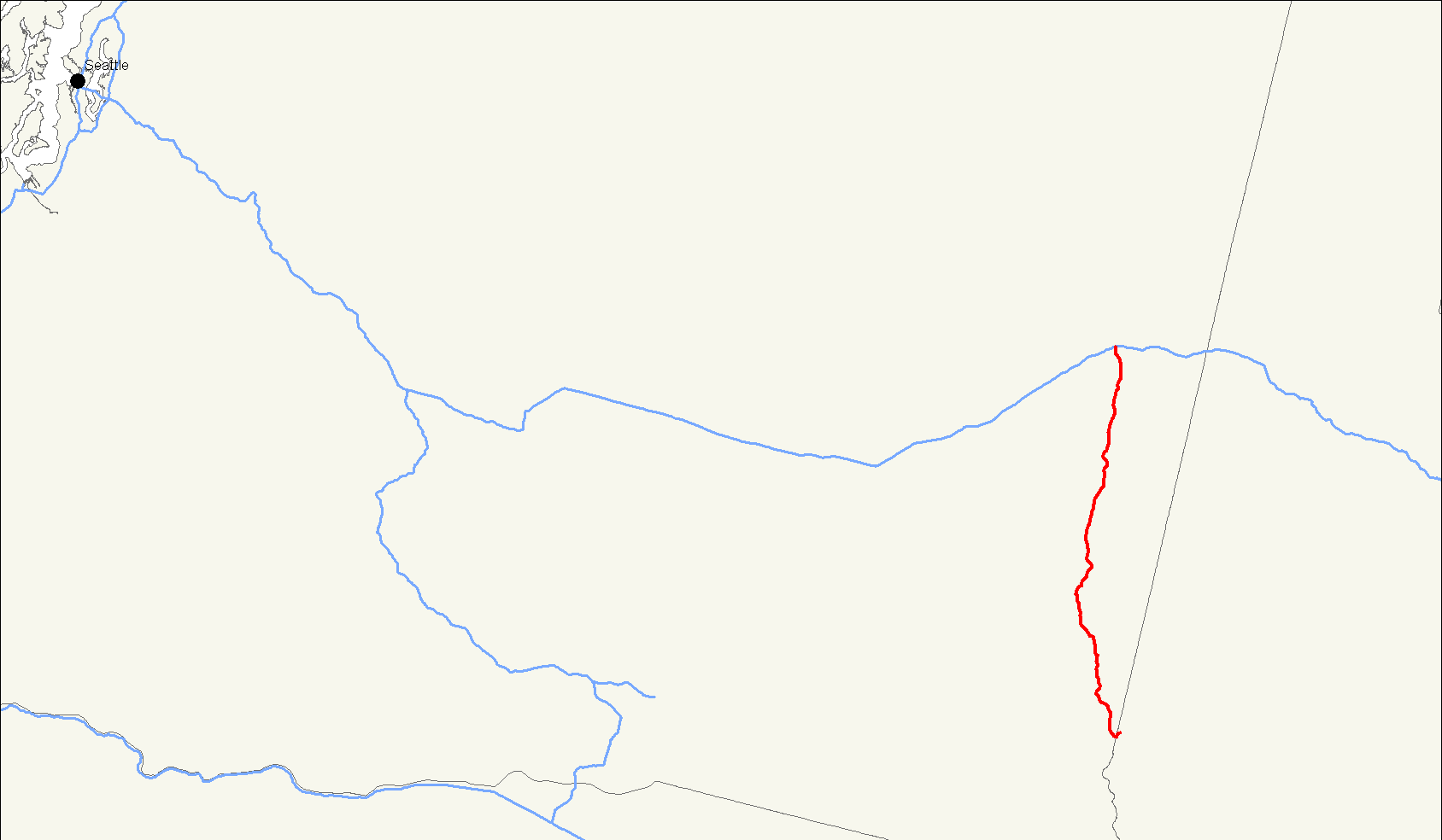 Map of U.S. Route 195 in the state of Washington.